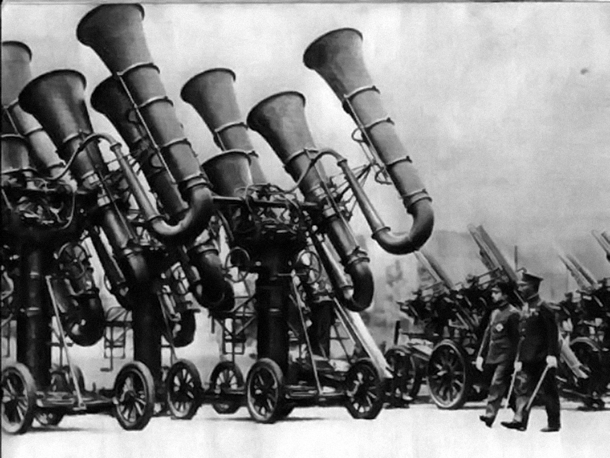 Pre-World War 2 photograph of Japanese Emperor Hirohito inspecting an array of acoustic aircraft locators. Their location is unknown. Prior to the development of radar in World War 2, military air defence forces used these devices to locate approaching enemy aircraft by listening for the sound of their engines. Each locator consists of two pairs of horn detectors, one pair on a horizontal axis and one pair on a vertical axis. The output of each pair is attached by rubber hoses to a stethoscope-type headphone worn by a technician. By using their stereophonic hearing and rotating the horn axis until the aircraft noise sounds "centered" in the earphones, the bearing and elevation of the aircraft can be determined.